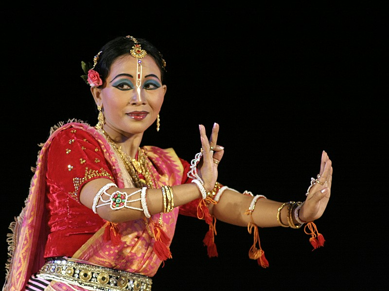 Sangeet Natak Akademi Delhi organized a festival of performances of recipients of Young Awardees of 2007.I attended performance Manipuri dance by Laishram Bina Devi . Here is photo taken during performance.